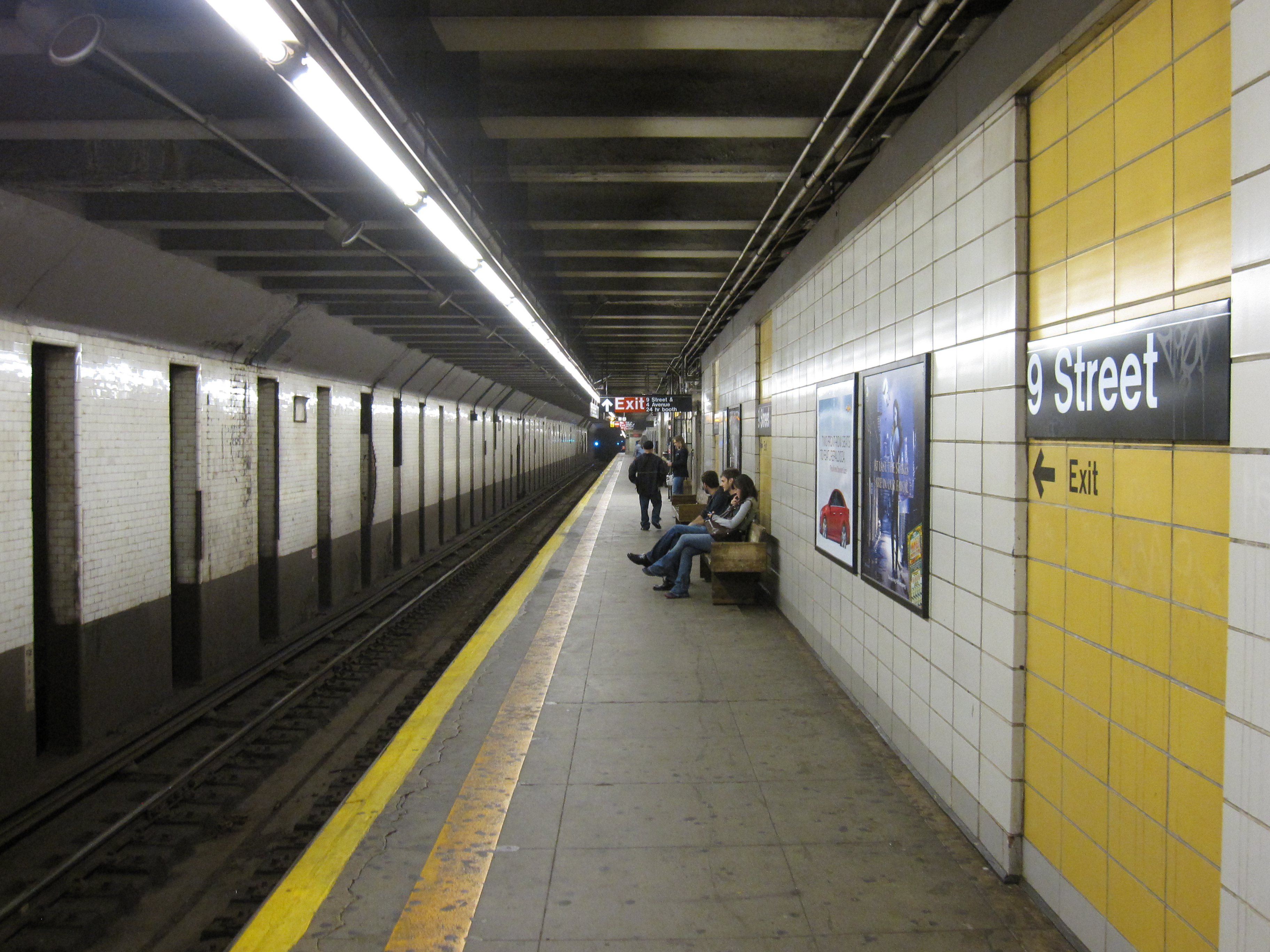 9th Street (BMT Fourth Avenue Line)